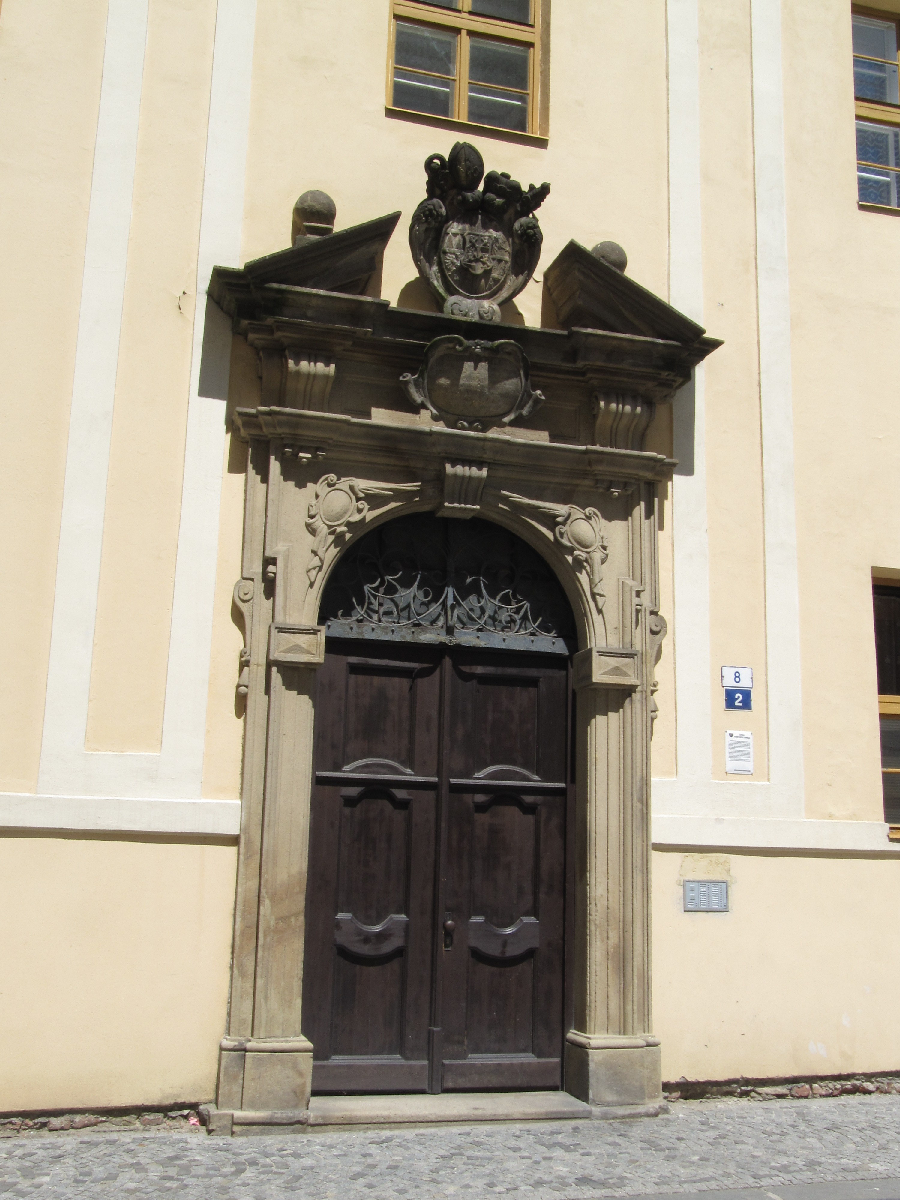 Kroměříž, Czech Republic. Portal of Piarist school building.